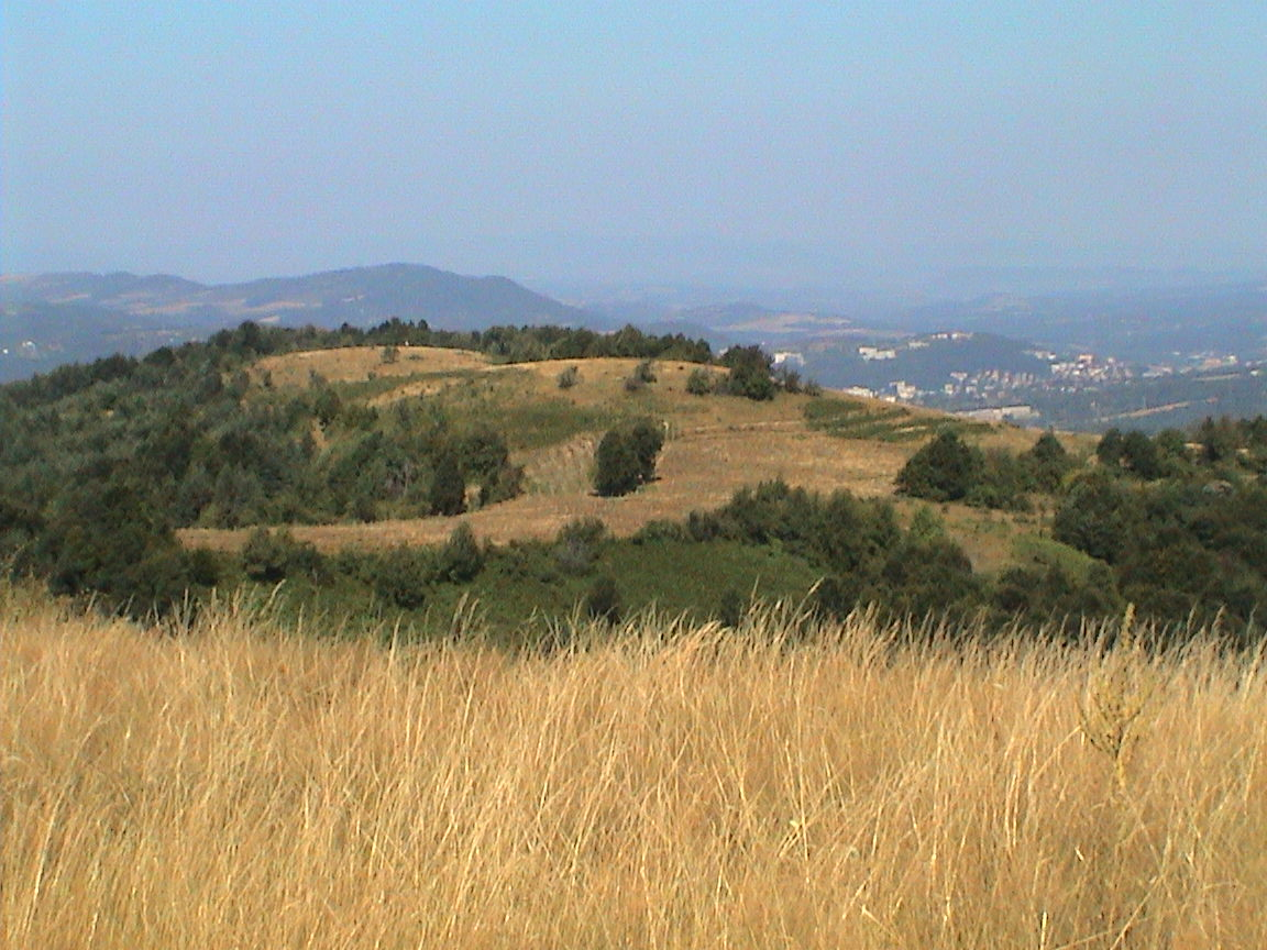 View to Gabrovo from the heights over village Furgovtsi, Bulgaria